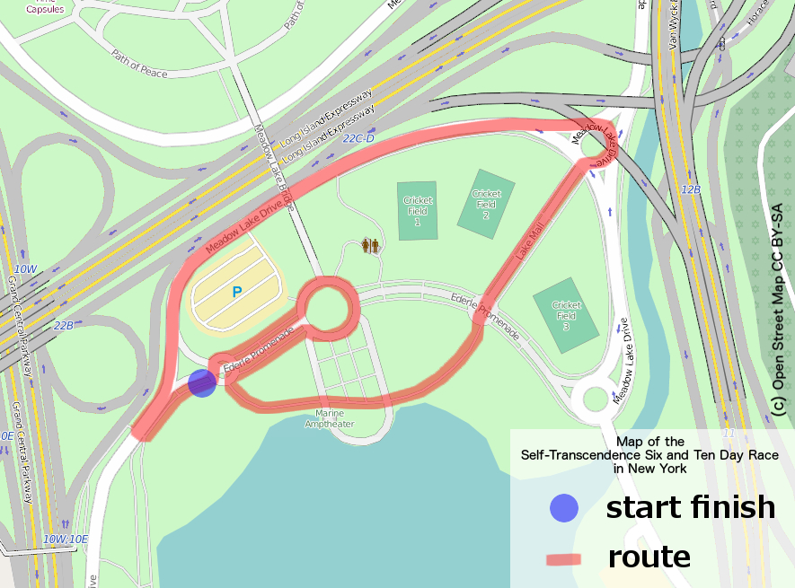 Self-Transcendence Six and Ten Day Races in New York, Flushing Meadows Corona Park.